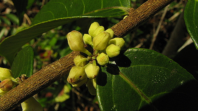 Casearia arborea (Rich.) Urb.